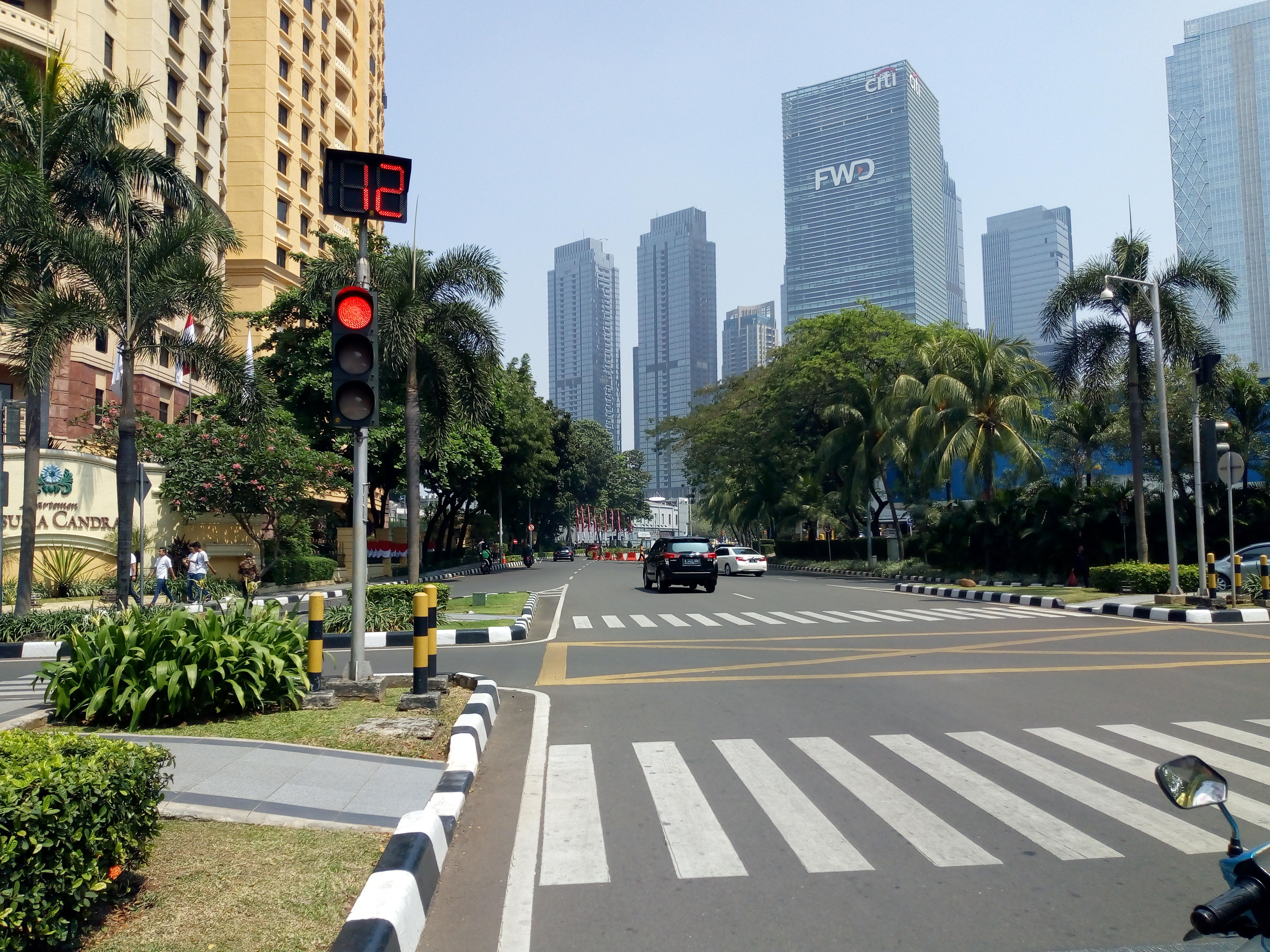 Sudirman Central Business District, Jakarta, Indonesia.